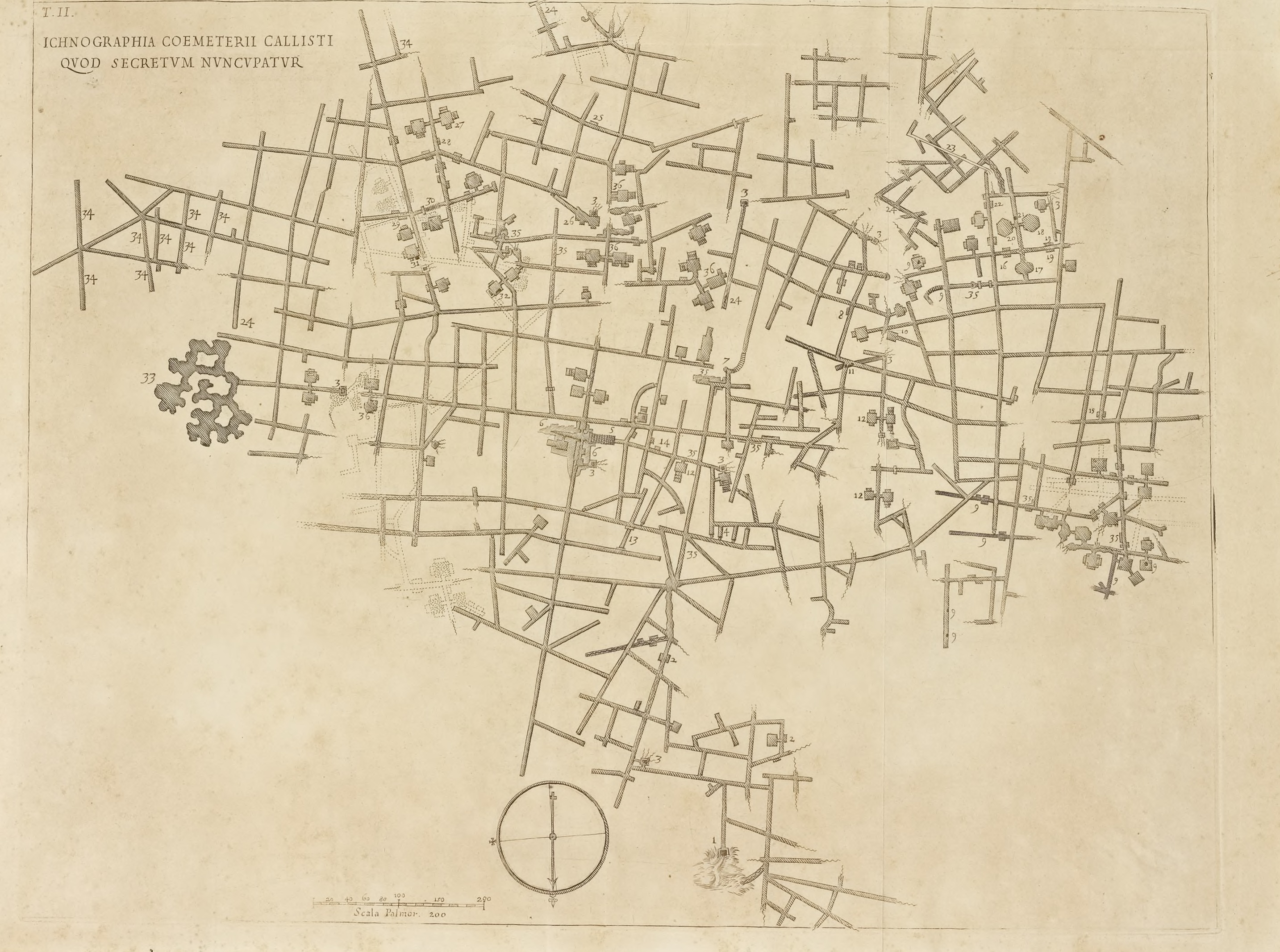 Title: Sculture e pitture sagre estratte dai cimiterj di Roma : pubblicate gia dagli autori della Roma sotterranea ed ora nuovamente date in luce colle spiegazioni per ordine di n. s. Clemente XII .. Year: 1737 (1730s) Authors: Bottari, Giovanni Gaetano, 1689-1775 Subjects: Catacombs Christian art and symbolism Publisher: In Roma : Nella Stamperia Vaticana, Presso Gio, Maria Salvioni Text Appearing Before Image: Back ofFoldoutNot Imaged Text Appearing After Image: Back ofFoldoutNot Imaged